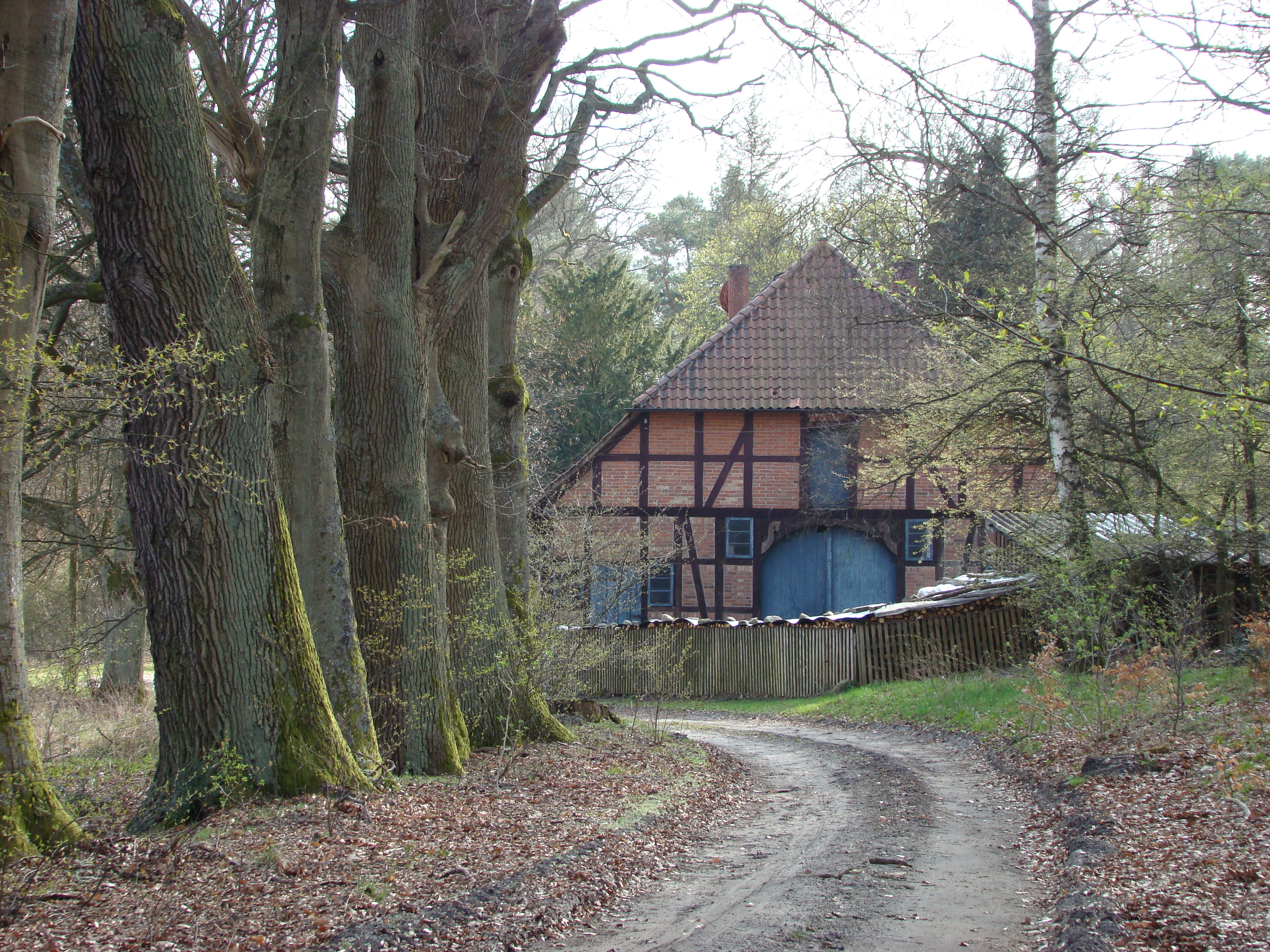 Kohlenbach, a village in Lower Saxony on the European walking route E1